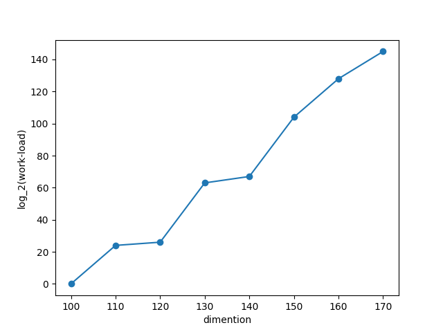 Оценка атаки штурмом на схему шифрования ggh